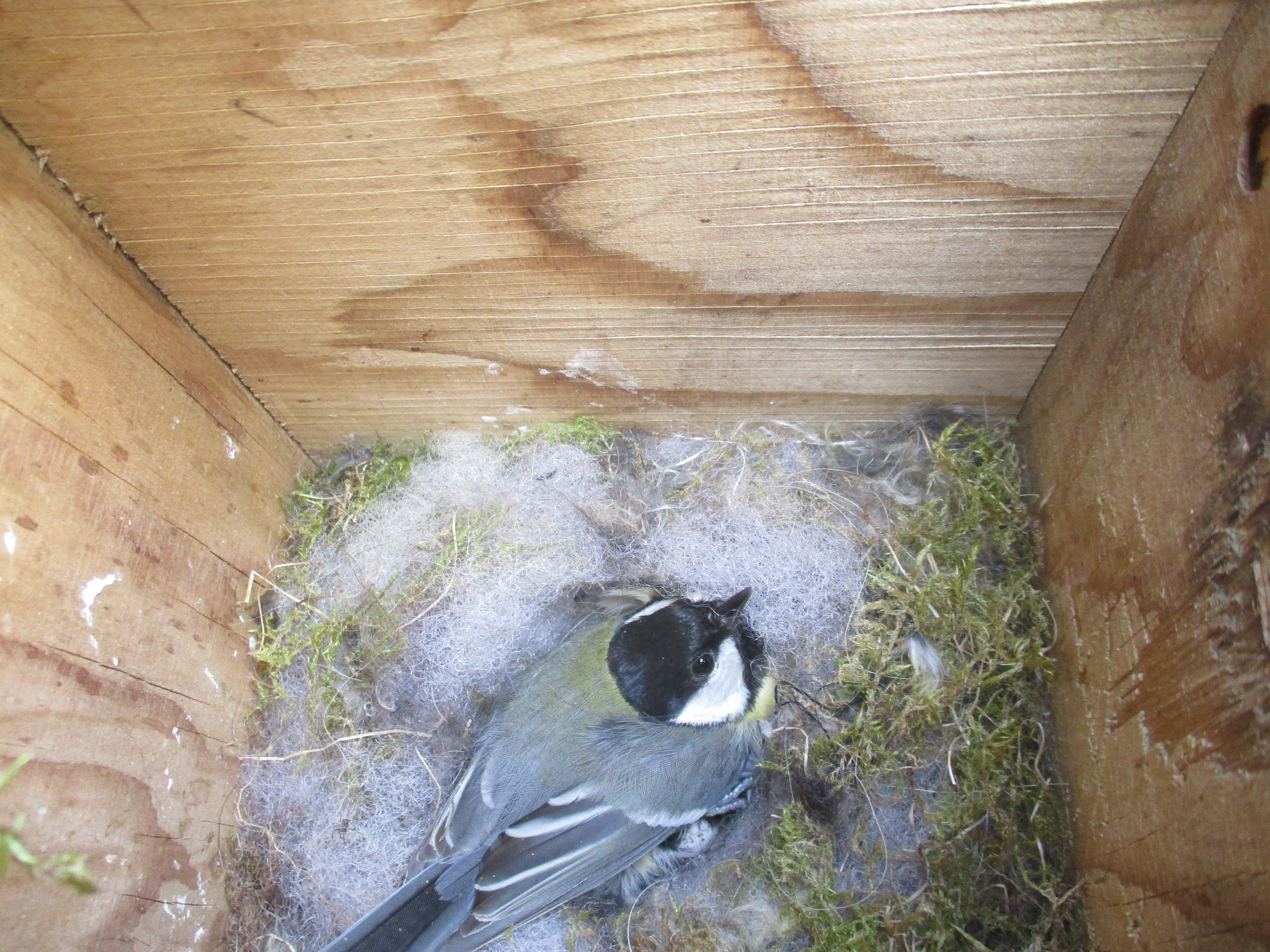 Great tit nesting in next box